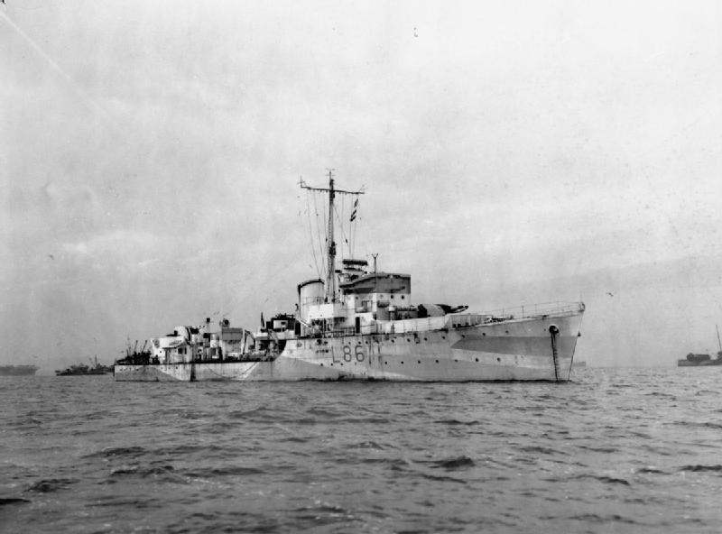 HMS Wensleydale At anchor.